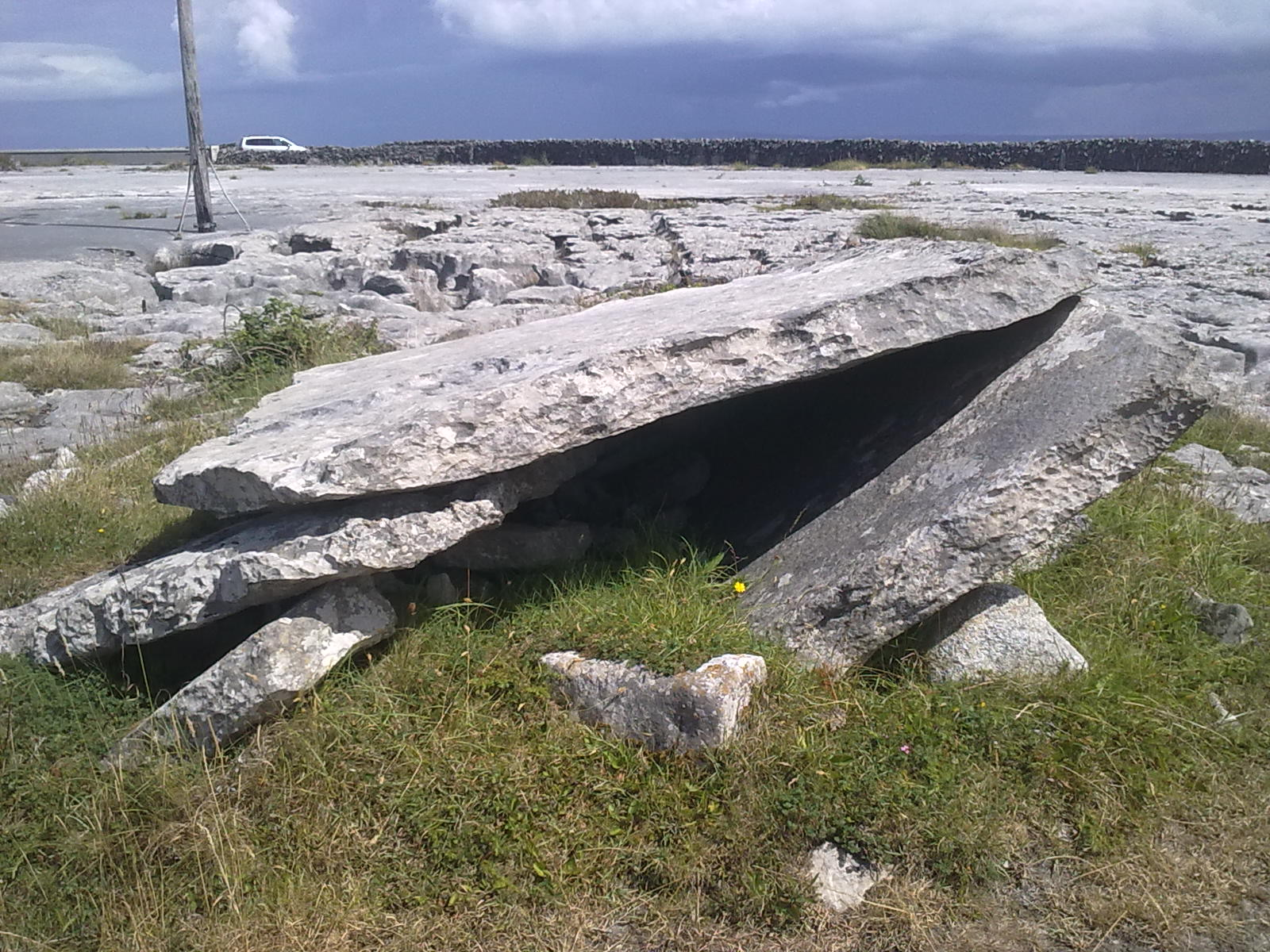 Leaba Dhiarmada 'is Gráinne